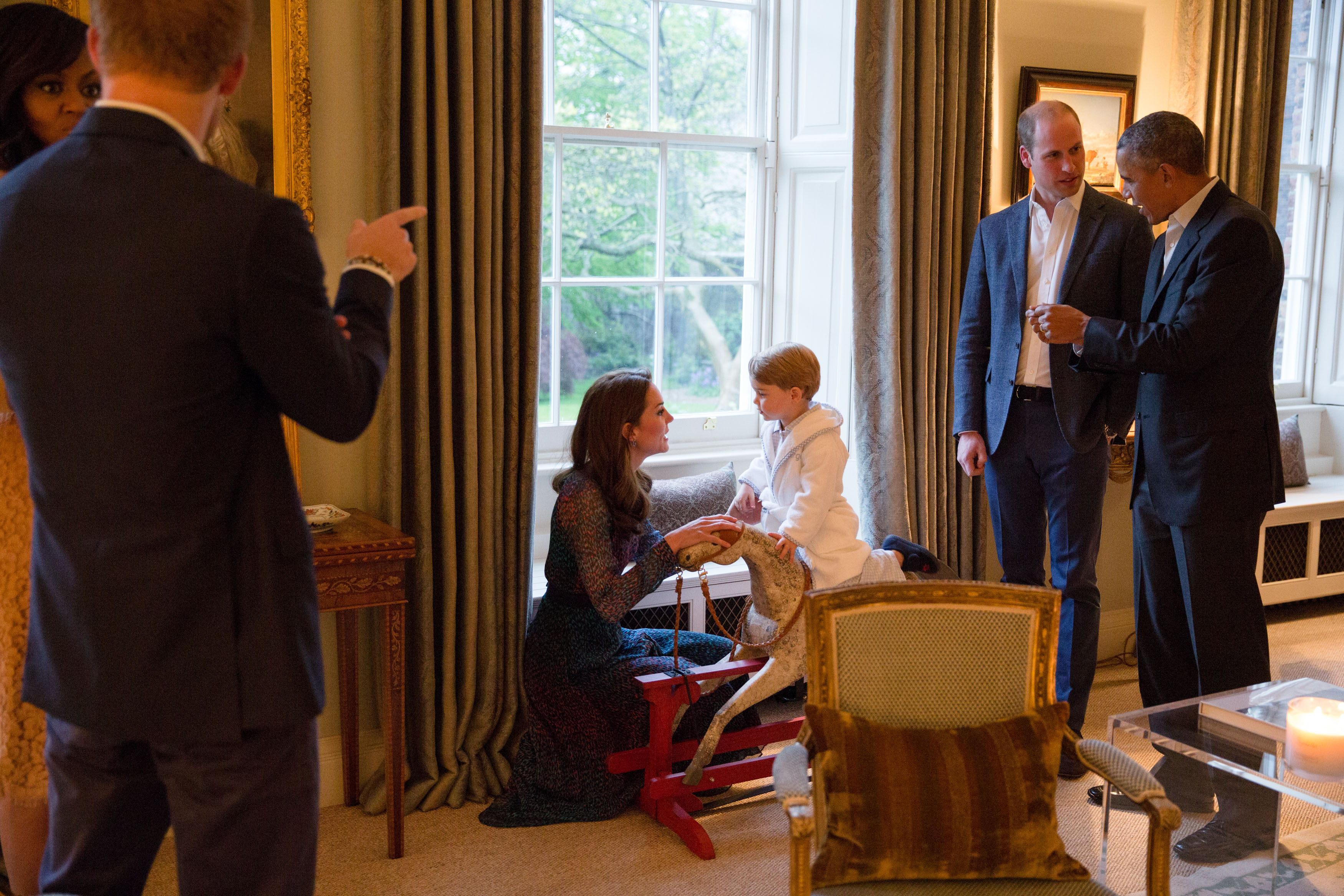 President Barack Obama talks with the Duke of Cambridge while the Duchess of Cambridge plays with Prince George; at left First Lady Michelle Obama talks with Prince Harry of Wales, at Kensington Palace in London April 22, 2016. (Official White House Photo by Pete Souza)